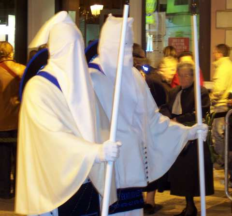 Desciption: Perdoni (Taranto) Photographer: --Asia Date: 14.4.2006